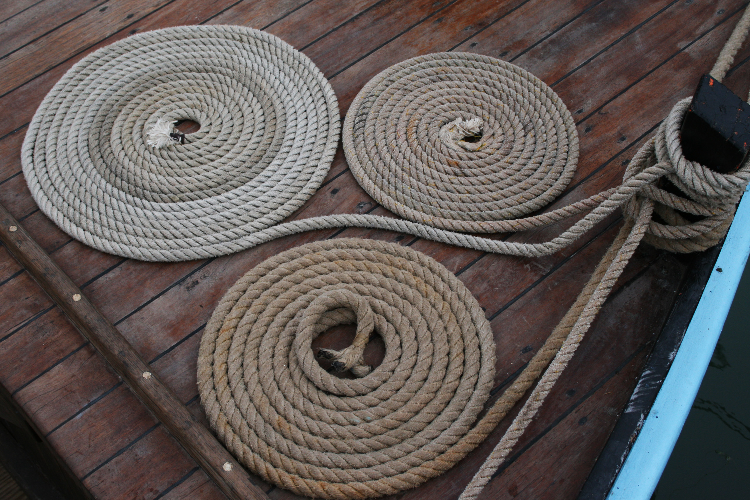 Ecoutes lovées Eng: coiled sheets